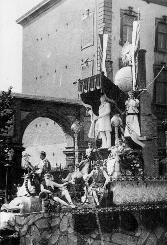 A decorated float with a statue of the early industrialist Petrus Regout (1801-1878) in a historical parade in Maastricht, Netherlands, in 1905.